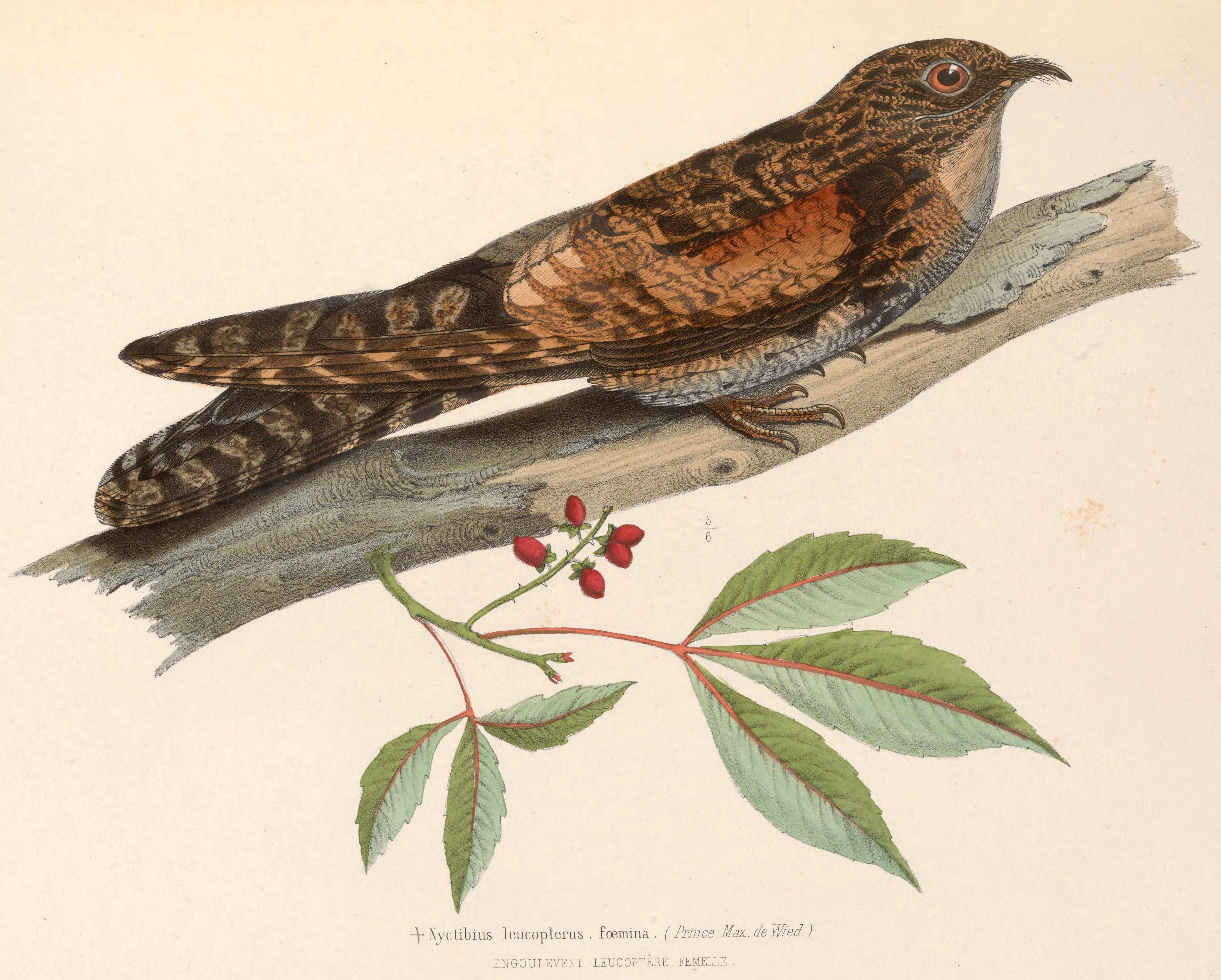 Nyctibius leucopterus = Nyctibius leucopterus (White-winged Potoo) - female